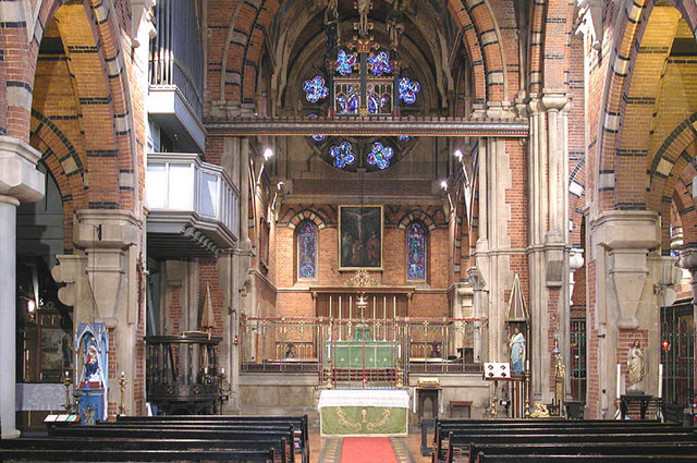 St Peter, Wapping Lane, London Docks, London E1W Begun 1865-6 by FH Pownall. Important Anglo-Catholic Church famous for its Priest Fr. Charles Lowder.